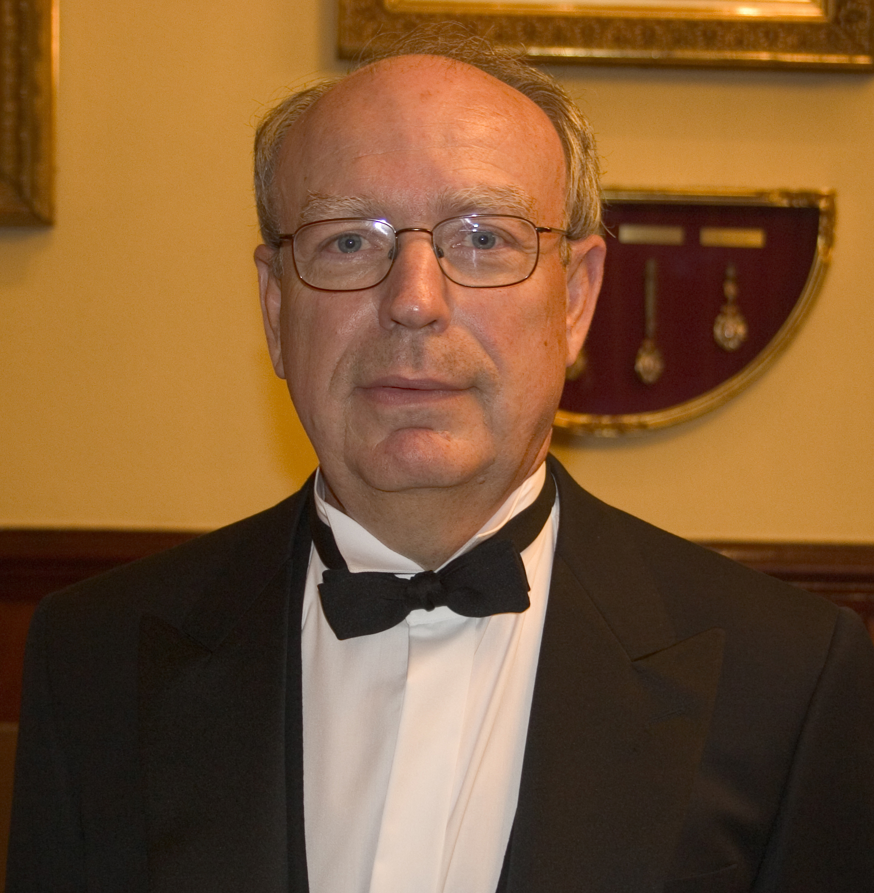 Eduardo Díaz-Rubio García. Introduction at the Spanish Royal National Academy of Medicine